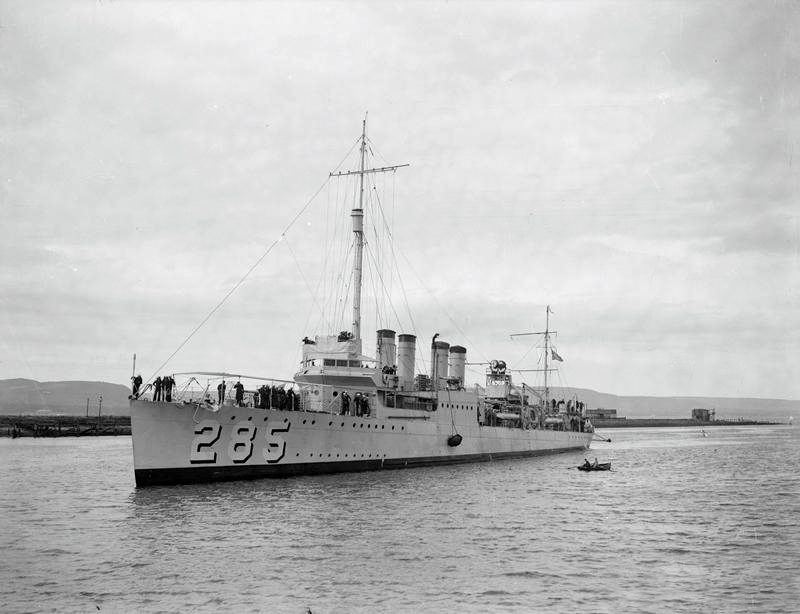 The U.S. Navy destroyer USS Case (DD-285) at anchor off Belfast, Northern Ireland, on 2 August 1926.